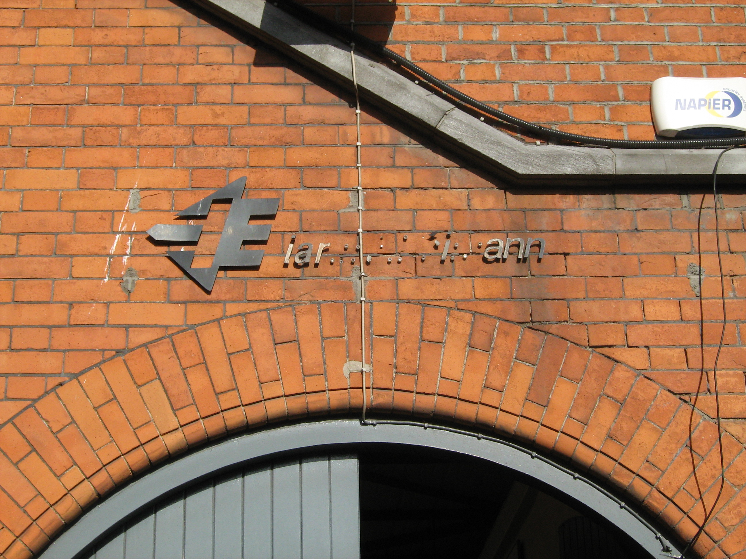 Drumcondra Railway Station, Dublin, Ireland. Iarnród Eireann Sign at Drumcondra Station, Dublin 9. Railway sign Ireland. Irish Rail sign at Drumcondra station, Dublin.